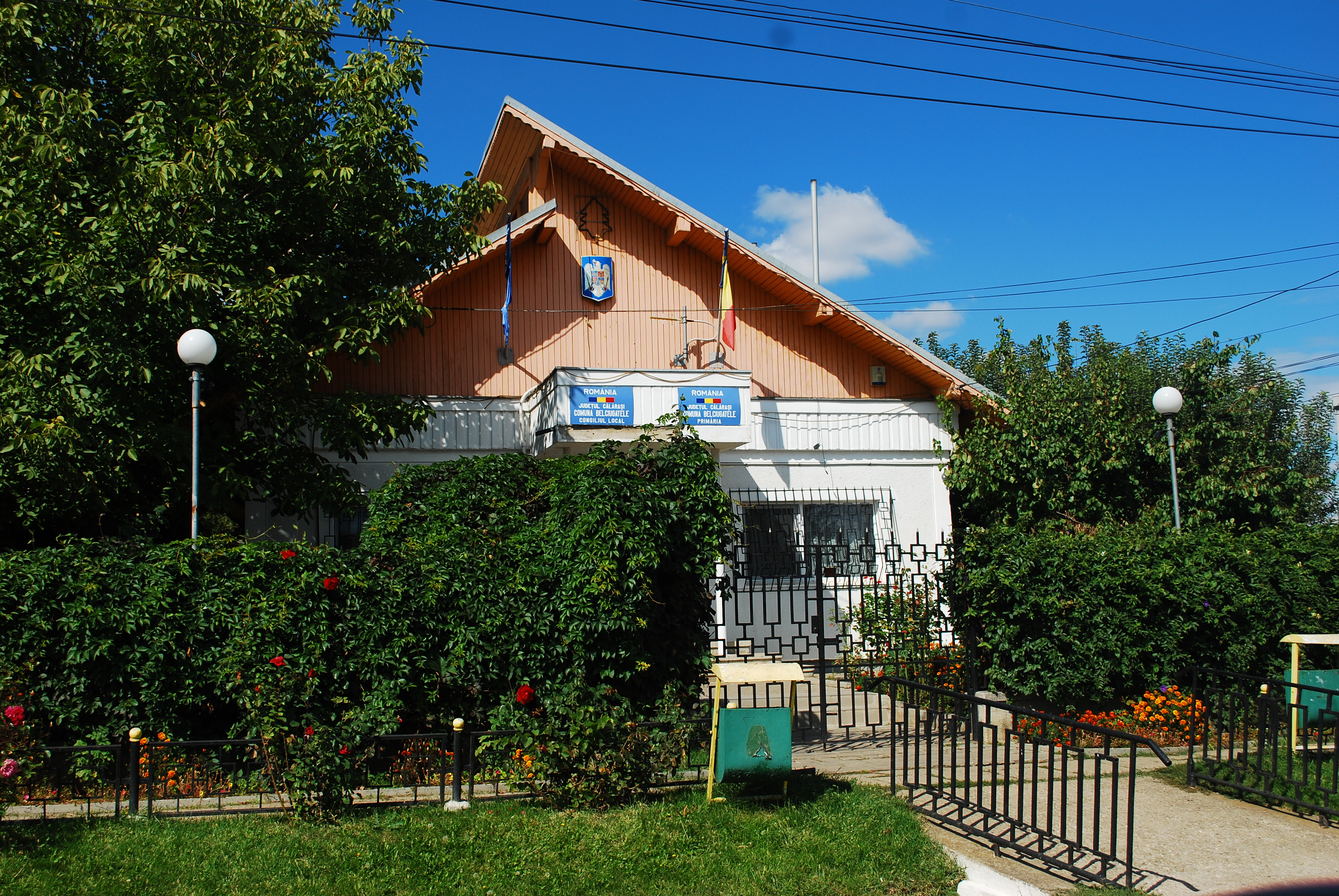 Town hall in Belciugatele, Călăraşi County, Romania